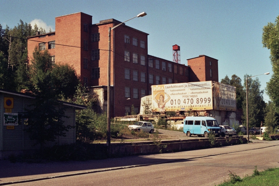 A building of what once was the Näsijärvi Cardboard Factory in the Santalahti area of the city of Tampere in Finland.